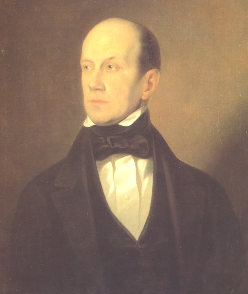 Pyotr Yakovlevich Chaadayev (1794-1856)